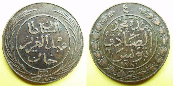 4 Tunisian Kharub coin struck in Tunis in 1281 AH (1864 AD), during the reign of Muhammad III as-Sadiq Bey